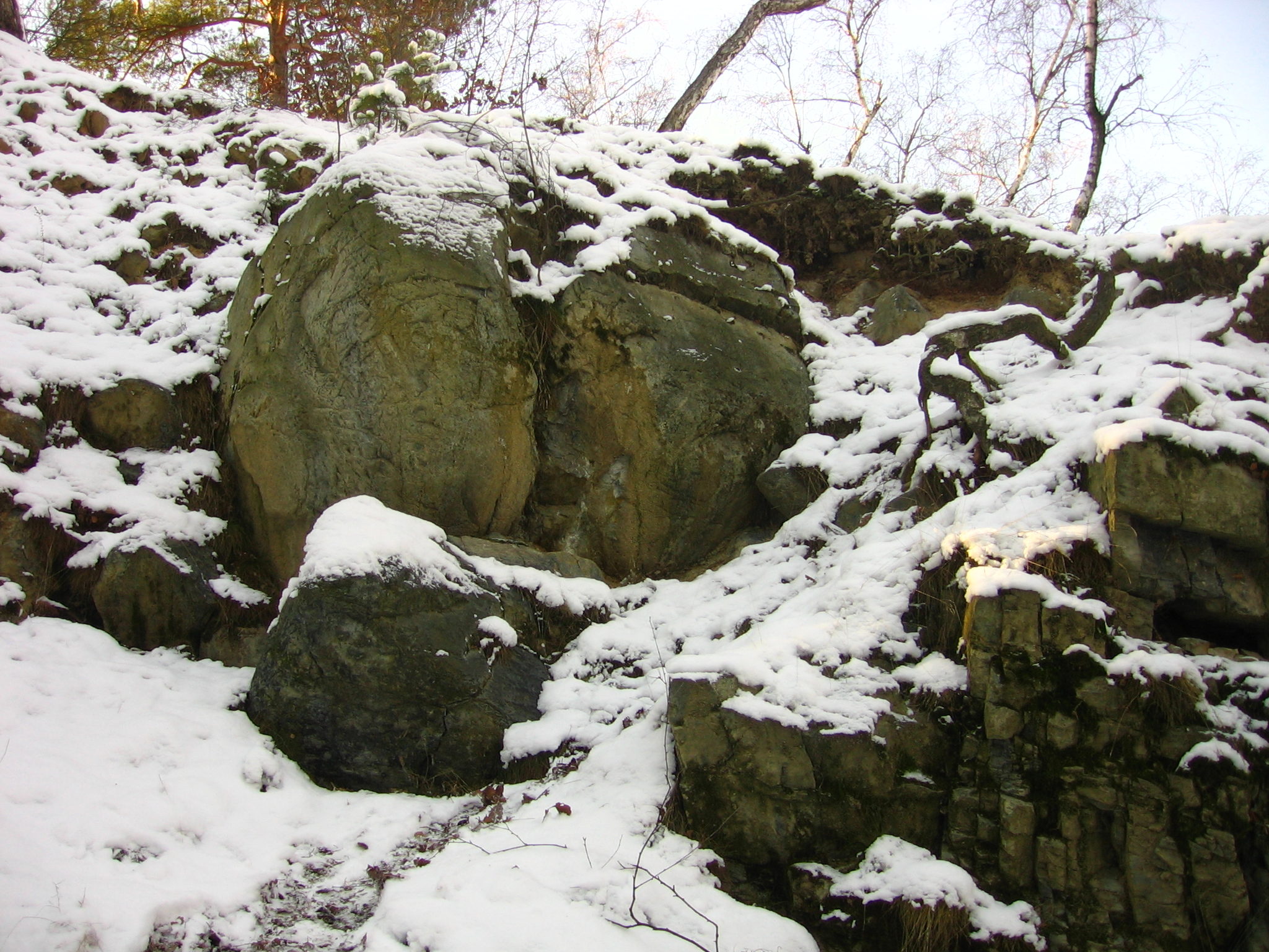 Ládví, Prague. An example of activity cretaceous sea, protected natural area. Photo by Wikimol 2005